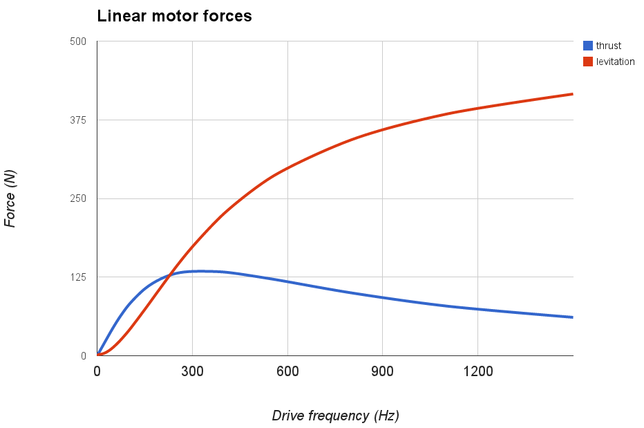 2D FEA simulation of a linear motor with locked secondary at different frequencies